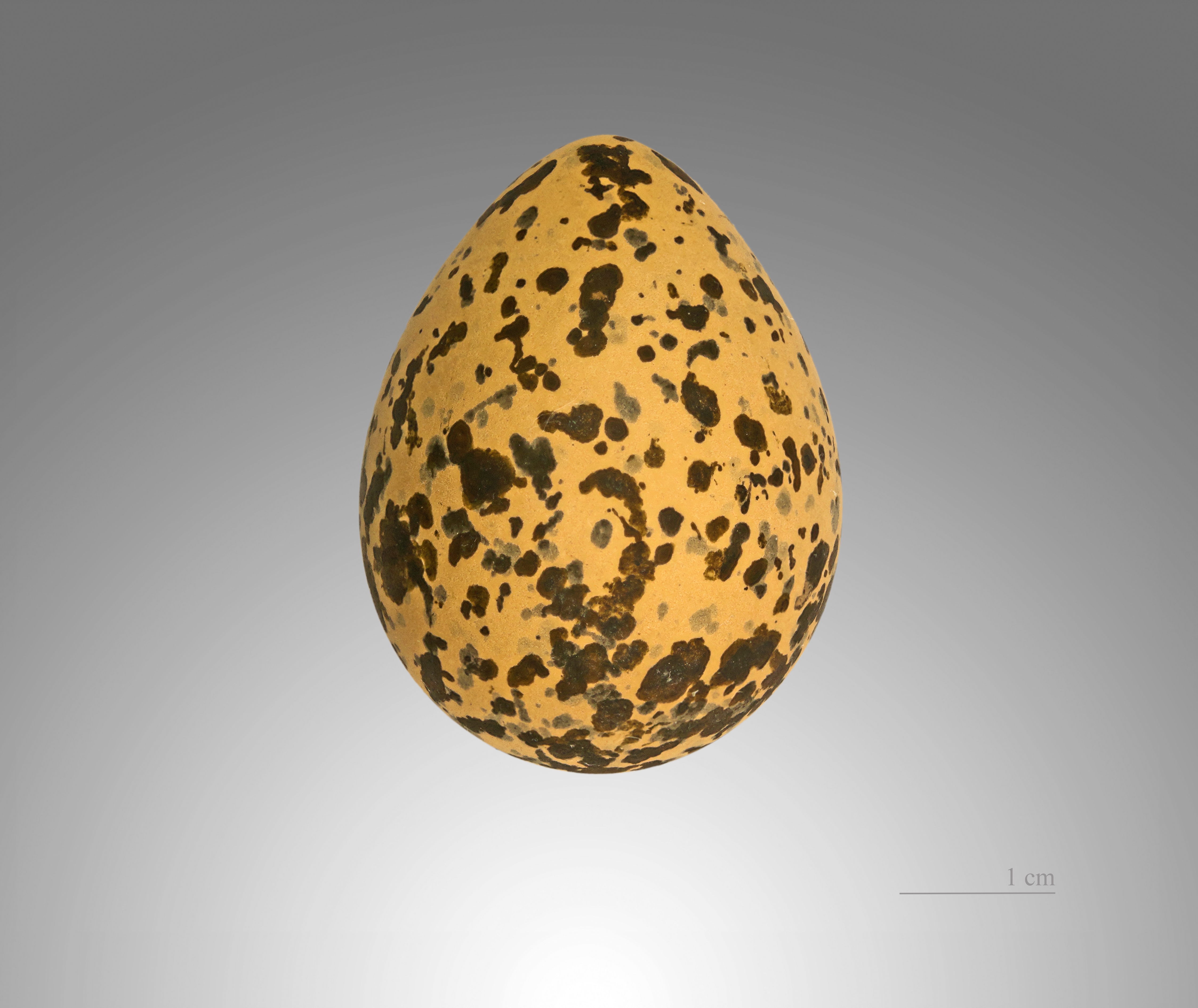 Egg of Spur-winged Plover. Collection of Jacques Perrin de Brichambaut.